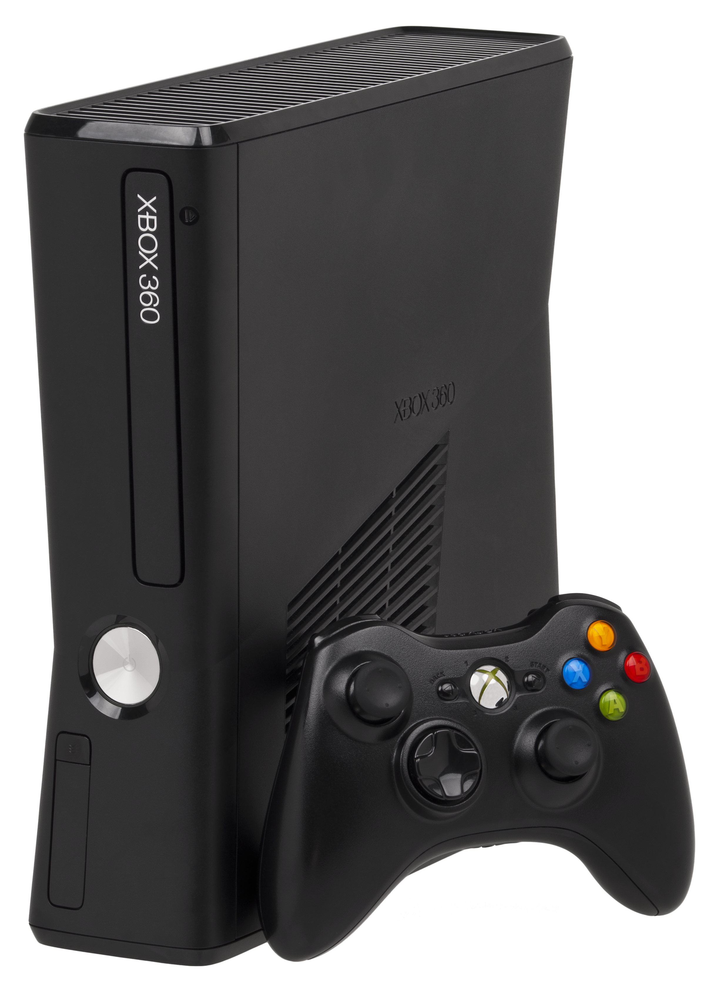 An Xbox 360 S shown with included controller. A matte-finish 4GB version, model 1439.